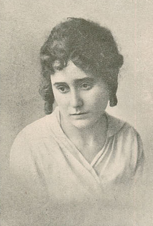 Helena Roque Gameiro (1895-1986), Portuguese artist